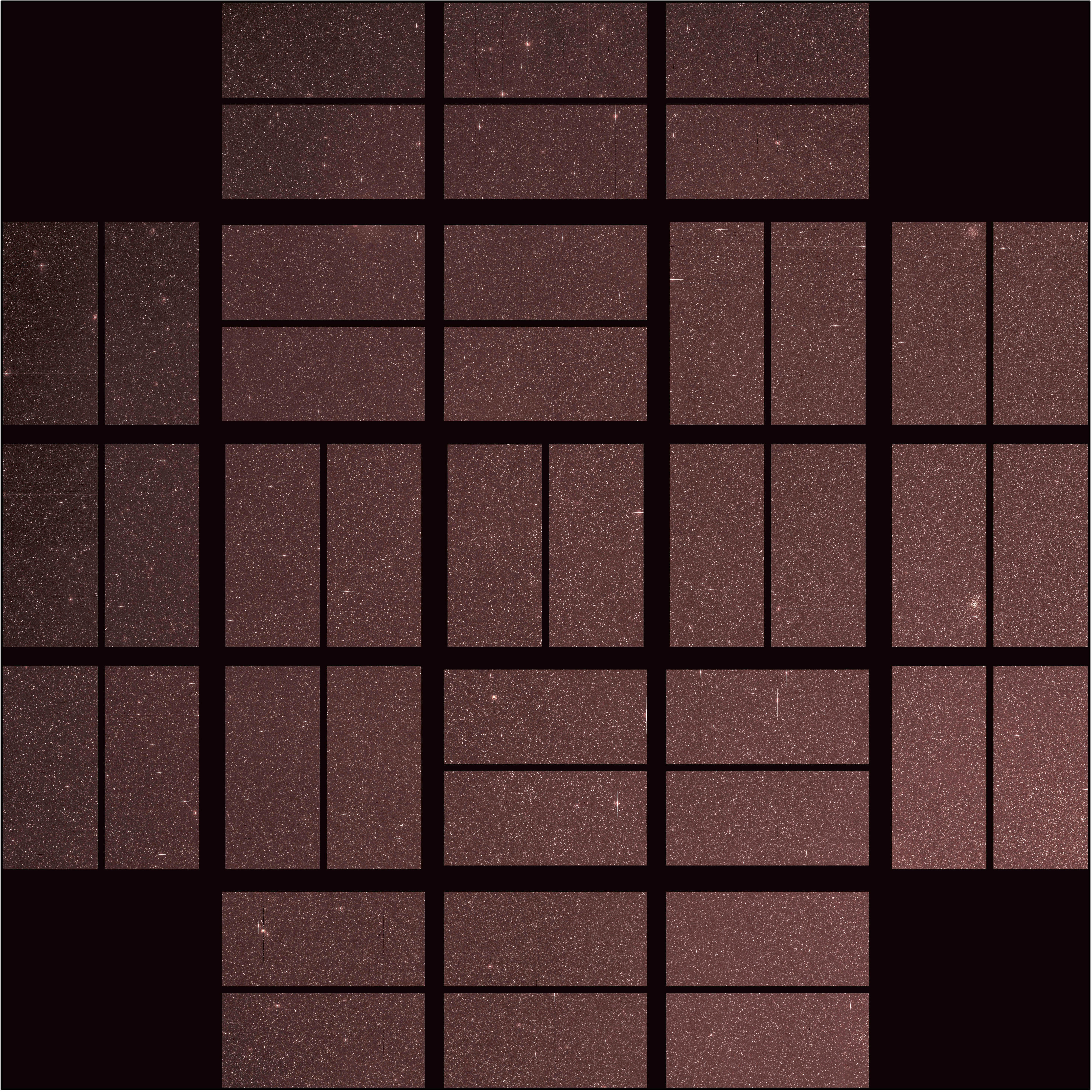 An image from NASA's Kepler mission showing the telescope's full field of view on 2009-04-08 which is one day after the dust cover on Kepler was blown away. Kepler will search 100,000 stars over 3.5 years looking for planets using 42 charge-coupled devices (CCDs) with a total resolution of 95 megapixels. Celestial north is to the left.